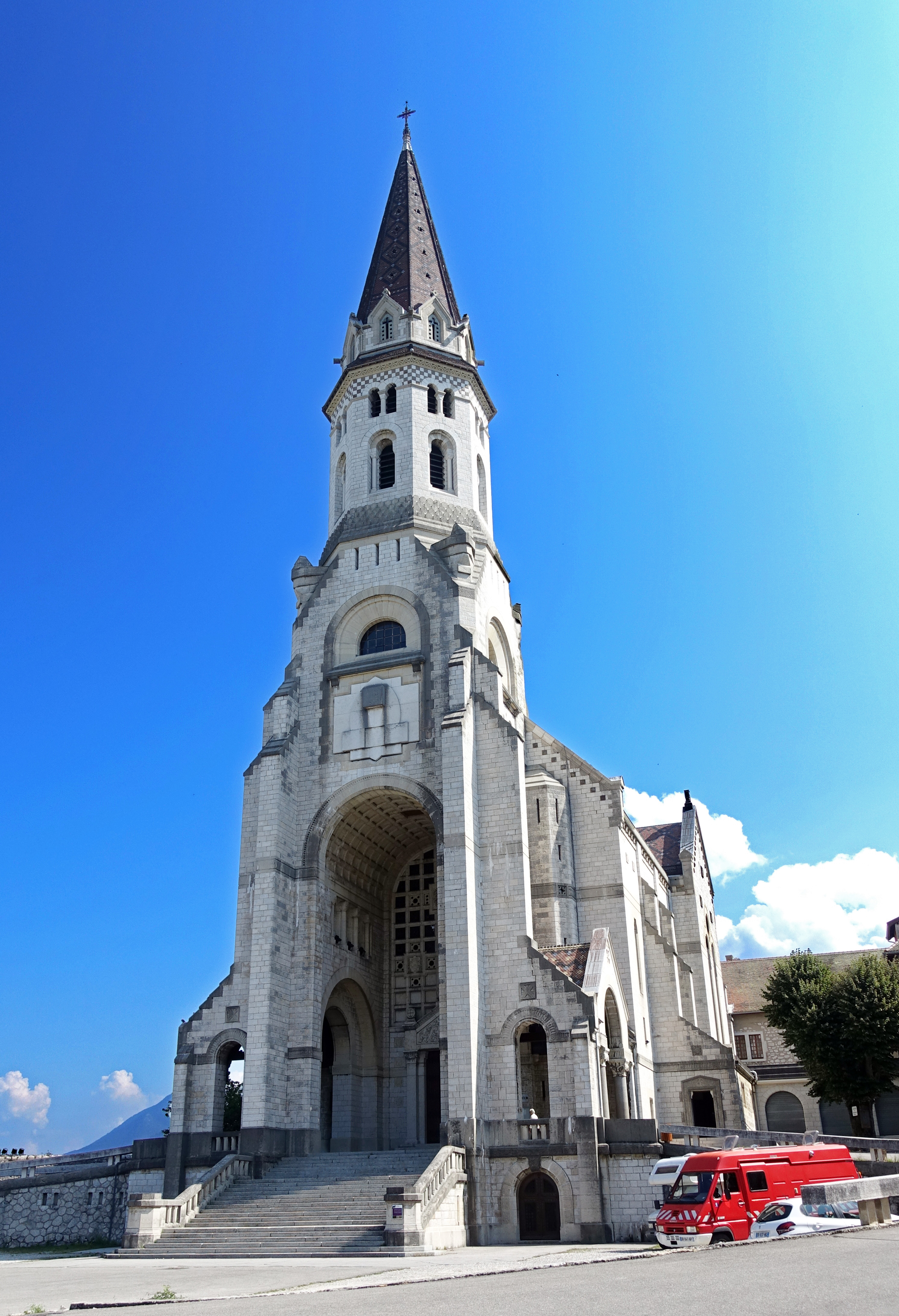 Basilique de la Visitation in Annecy.